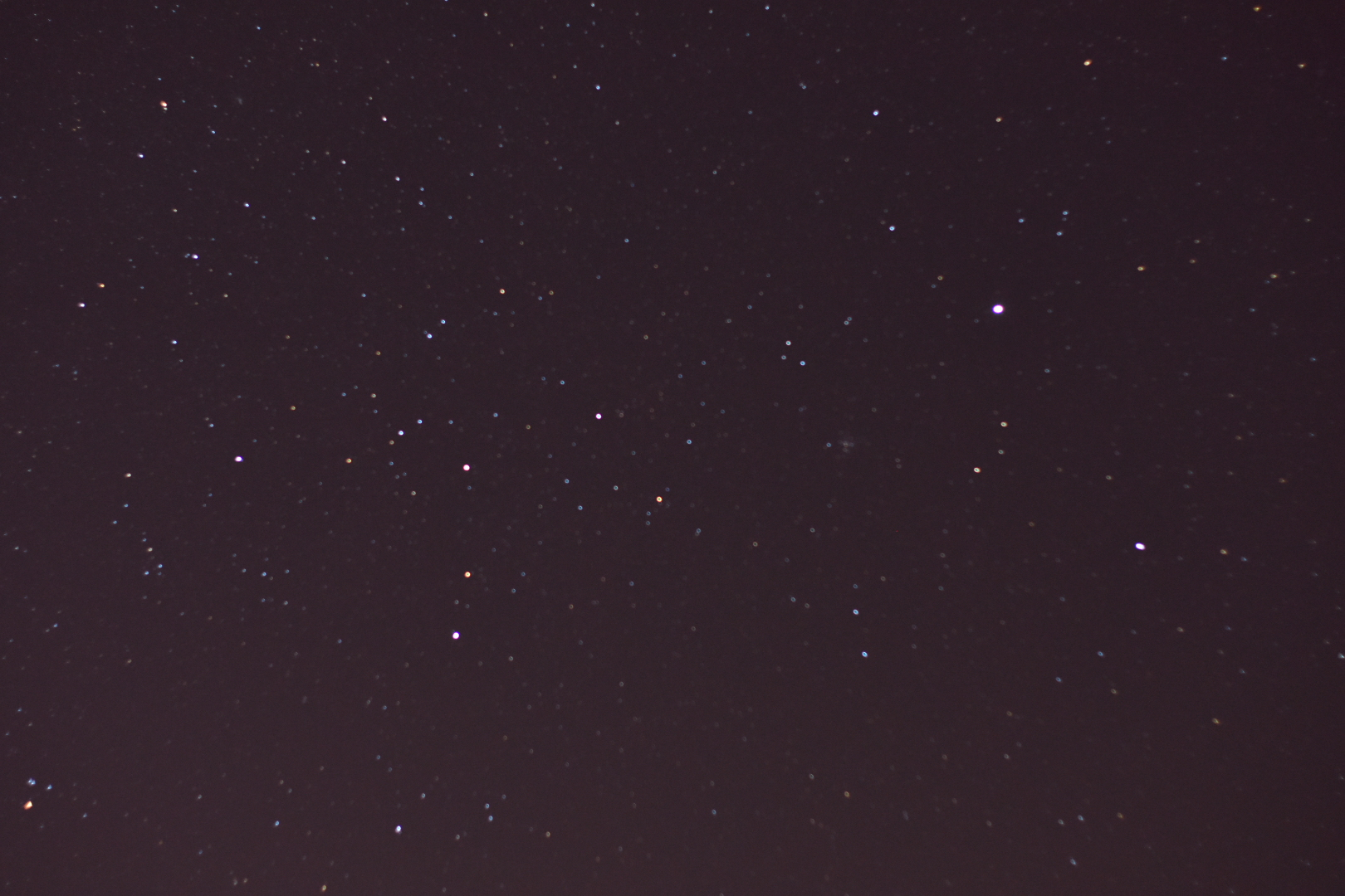 Canis Major in Kuantan Night Sky